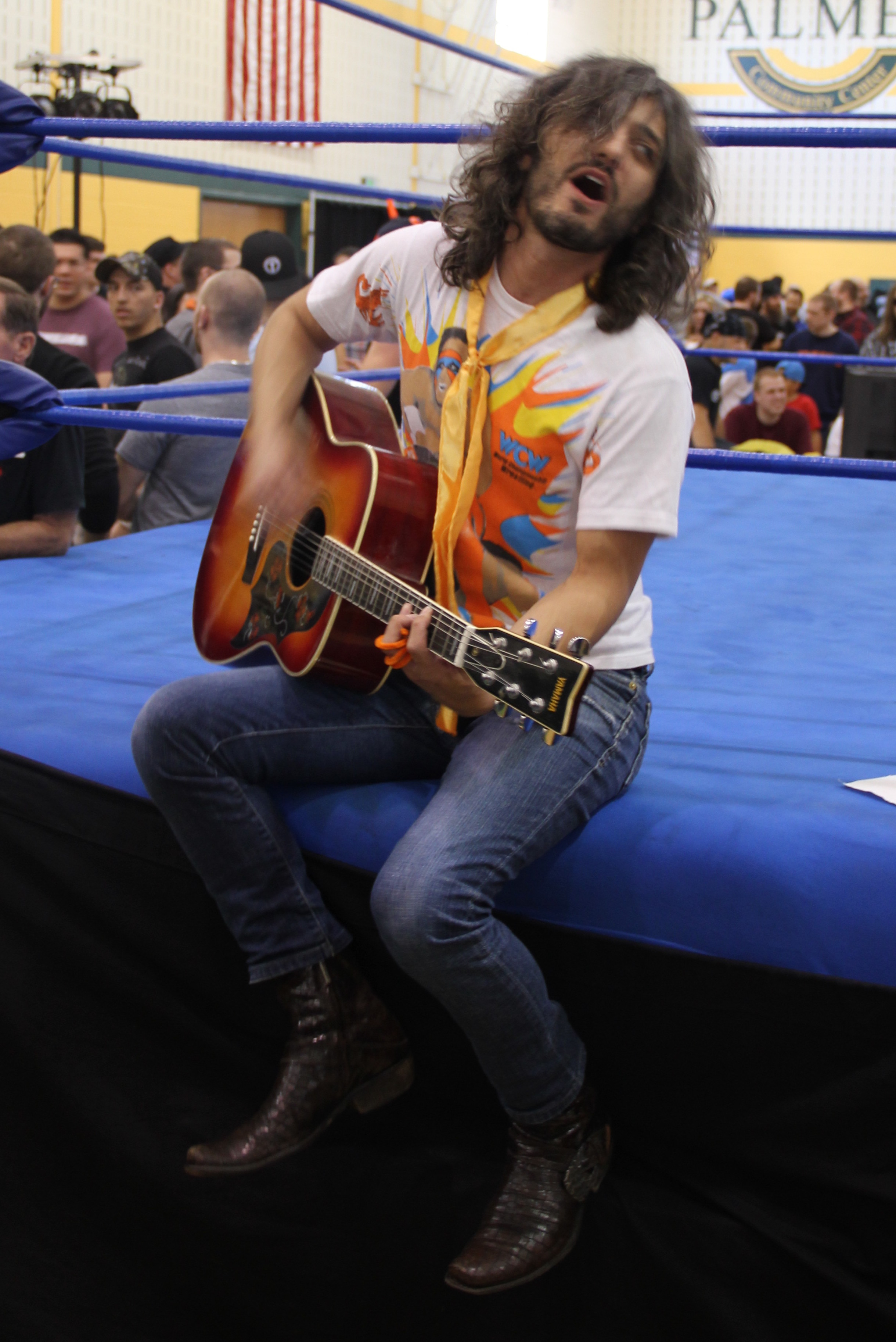 Professional wrestling ring announcer and commentator Gavin Loudspeaker performing at Chikara King of Trios 2012 Fan Conclave.